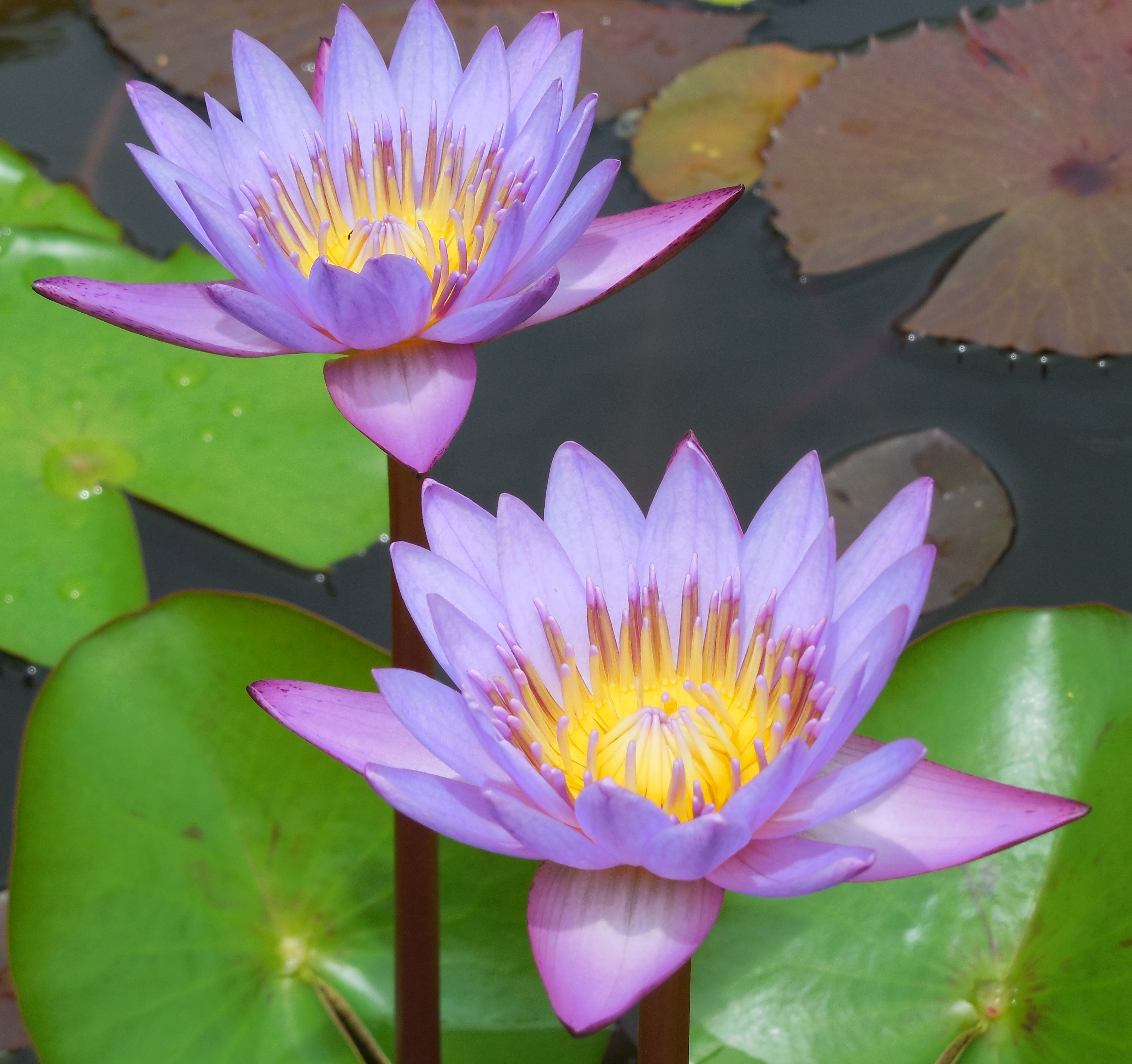 Water lily in Gandhi Park, East Fort, Thiruvananthapuram, India.